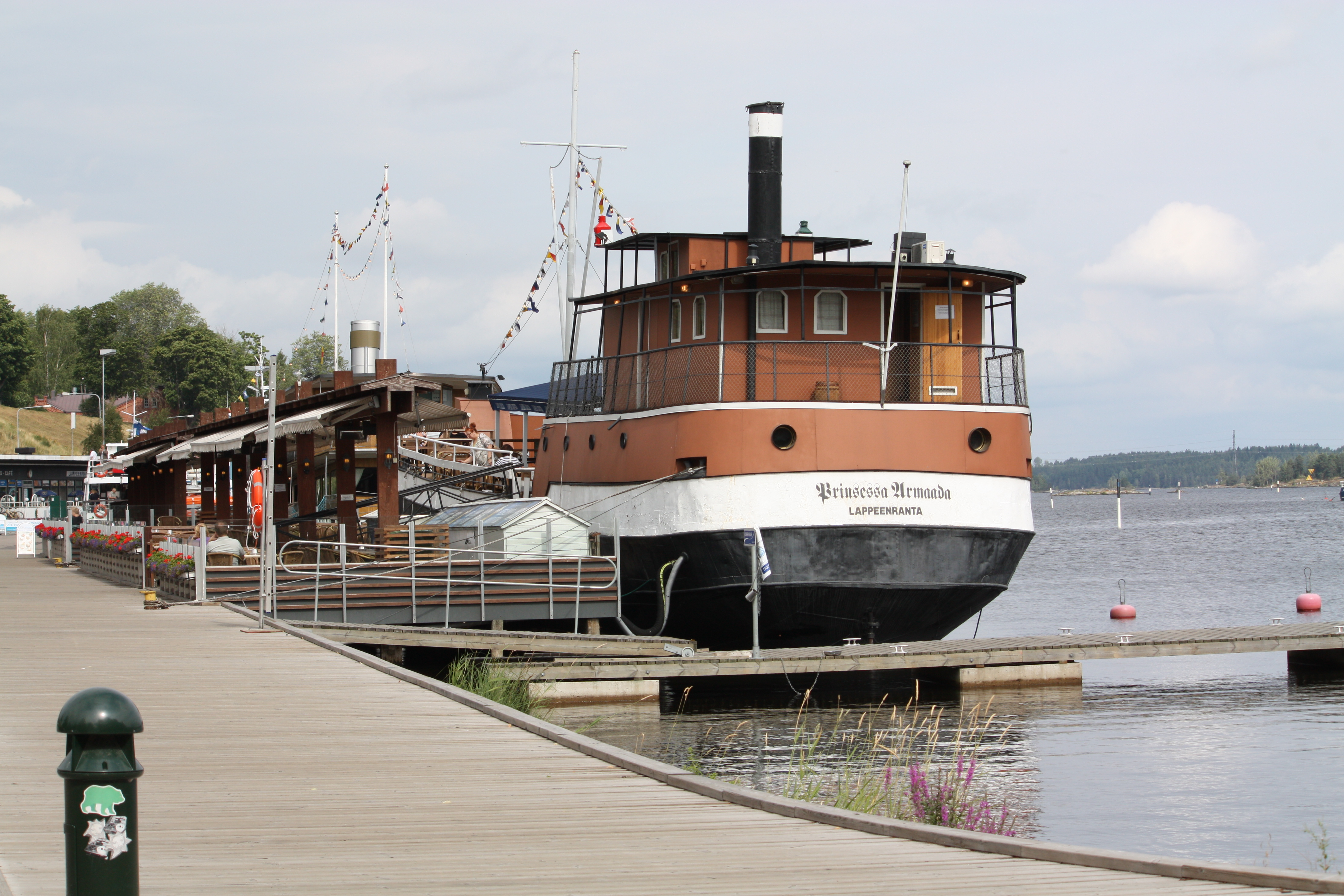 Restaurant ship Prinsessa Armaada at the harbour of Lappeenranta.